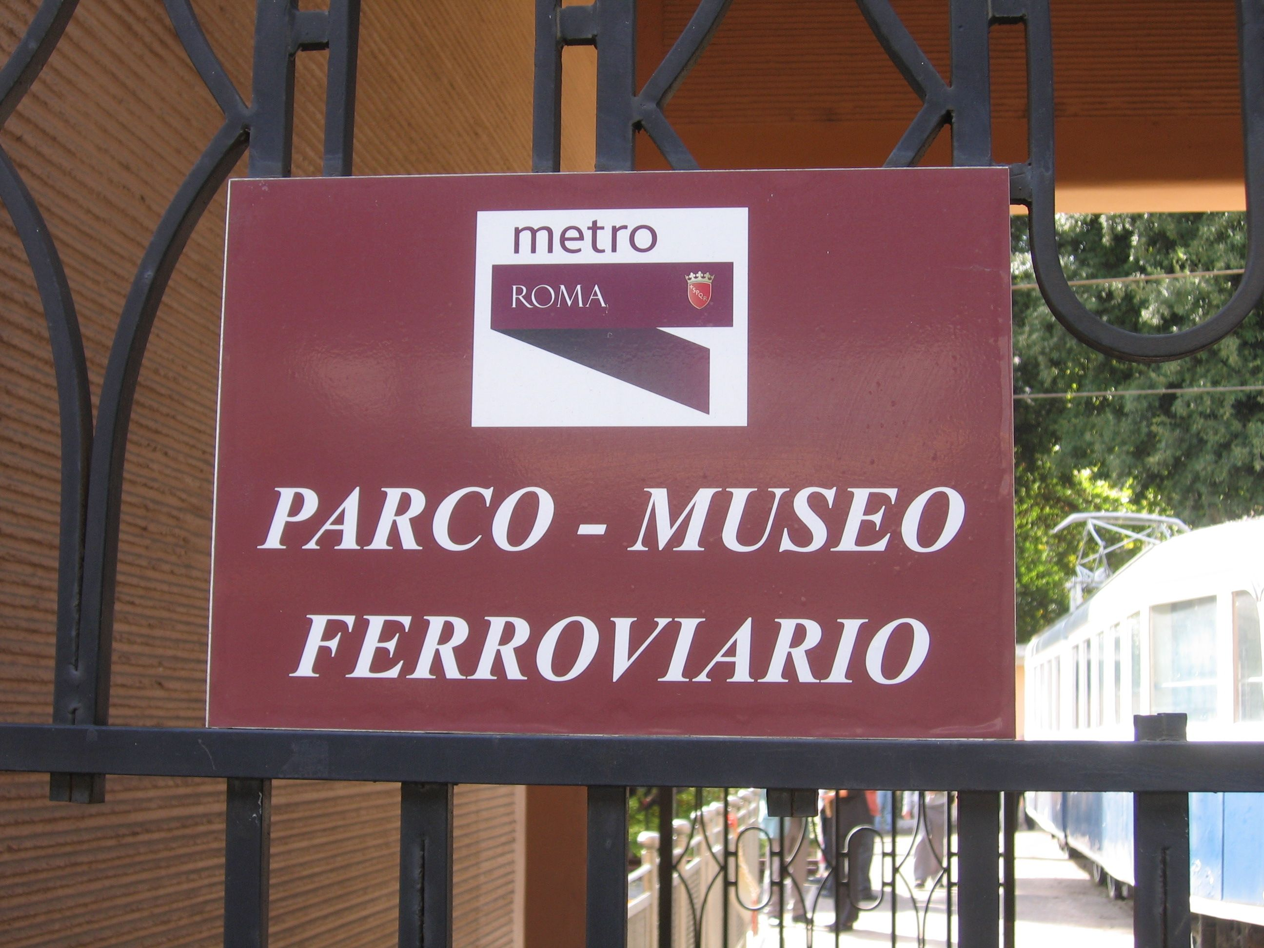 Sign of Rly Museum Metro Rome